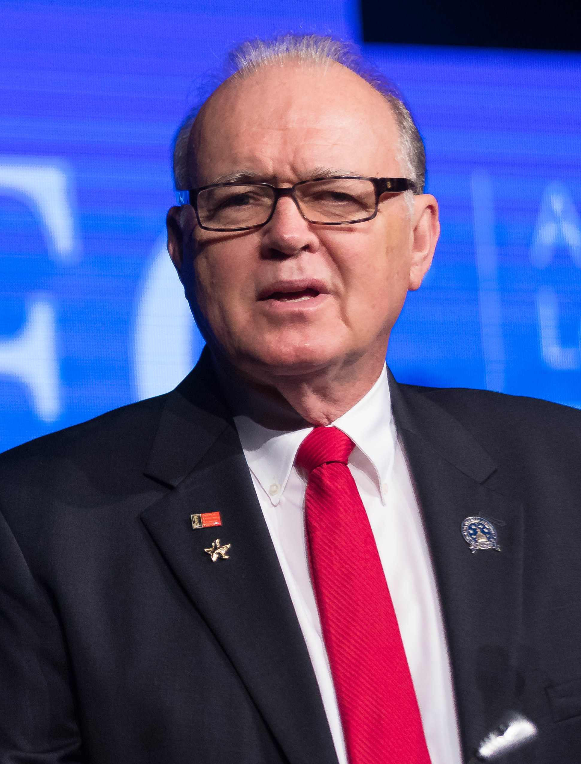 21 July 2017 - Denver, CO - US Secretary of Labor Alexander Acosta gives remarks and participates in Q&A at the 44th annual American Legislative Exchange Council (ALEC) meeting. Jim Buck Indiana State Senator, ALEC Board of Directors Official Department of Labor Photograph*** Photographs taken by the federal government are generally part of the public domain and may be used, copied and distributed without permission. Unless otherwise noted, photos posted here may be used without the prior permission of the U.S. Department of Labor. Such materials, however, may not be used in a manner that imply any official affiliation with or endorsement of your company, website or publication. Photo Credit: Department of Labor Shawn T Moore